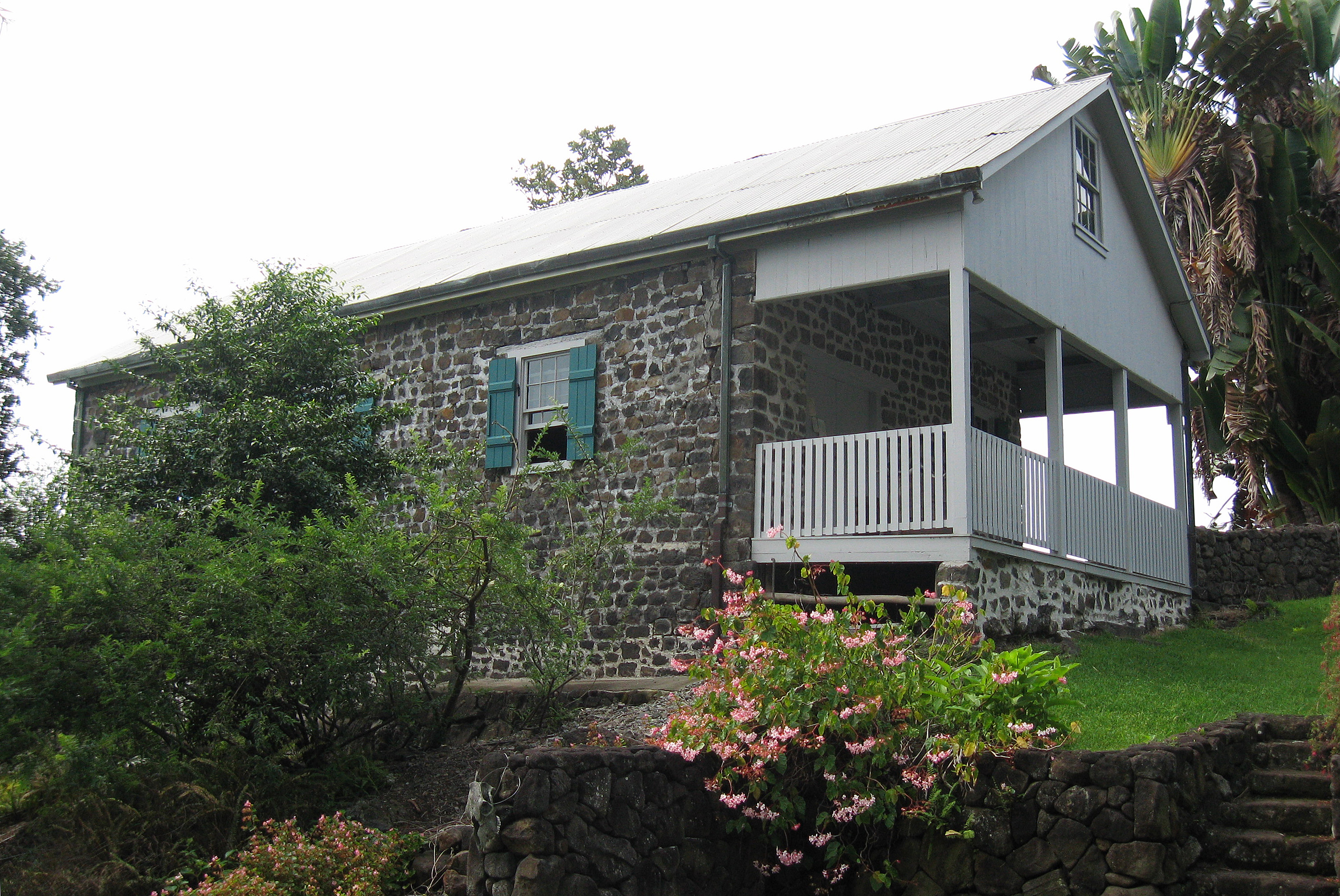 Store built circa 1871 by Henry Nicholas Greenwell (1826–1891), who is credited with getting international recognition for the "Kona Coffee" brand. It is now the home of the Kona Historical society, run as a smll museum.